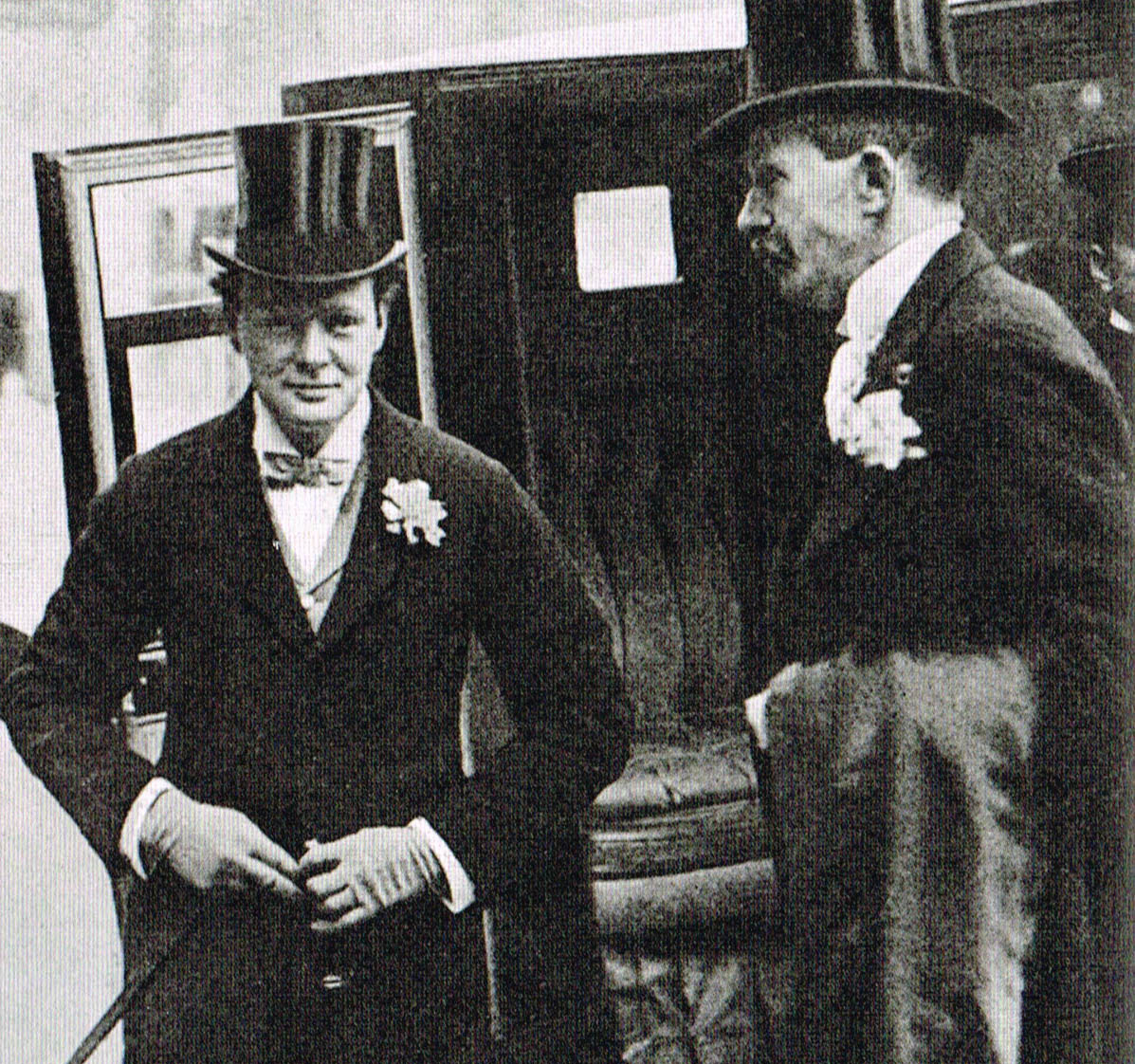 Churchill and Hugh Cecil wedding day